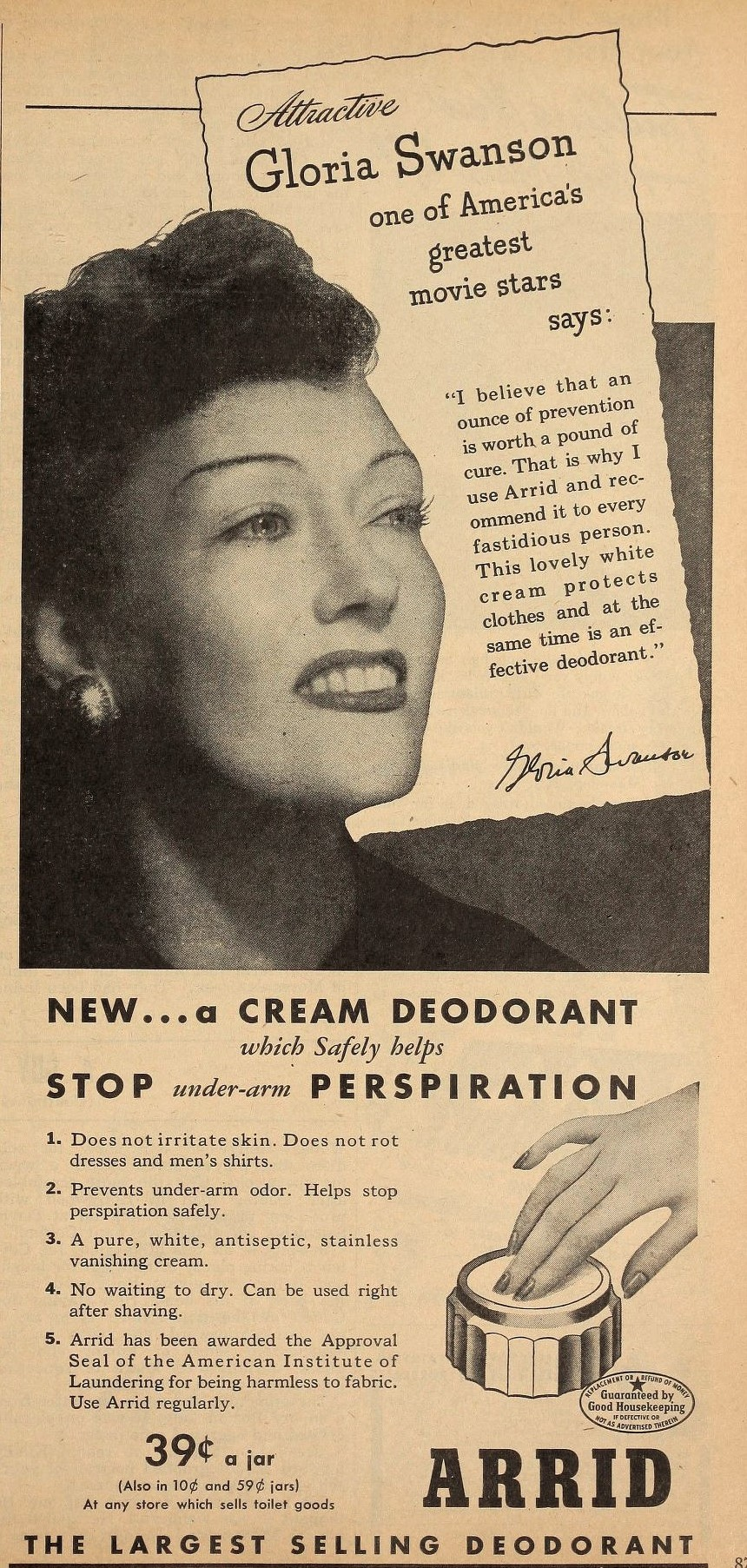 Gloria Swanson uses Arrid deodorant, 1944